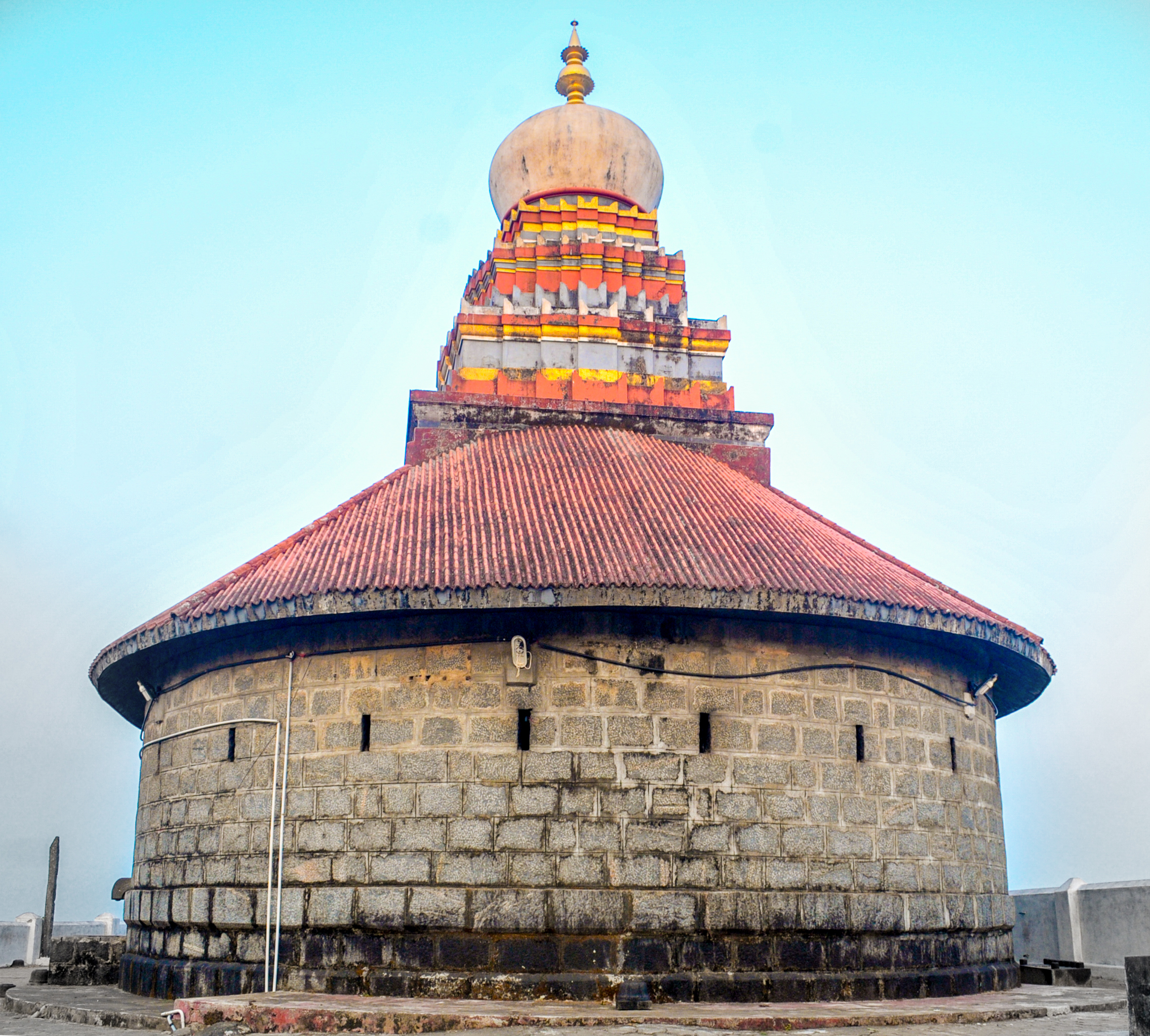 This image shows back side of Shri Karinjeshwara Temple situated in Banwal, DK, Karnataka, India. You can see beautiful Hindu architecture here. It is a one of the oldest temple. You have to walk several thousand steps to reach here. At the end of your journey you reach here. You can also visit Temple of Mata Parvathi, wife of Lord Shiva, on halfway to the Karinjeshwara Temple.